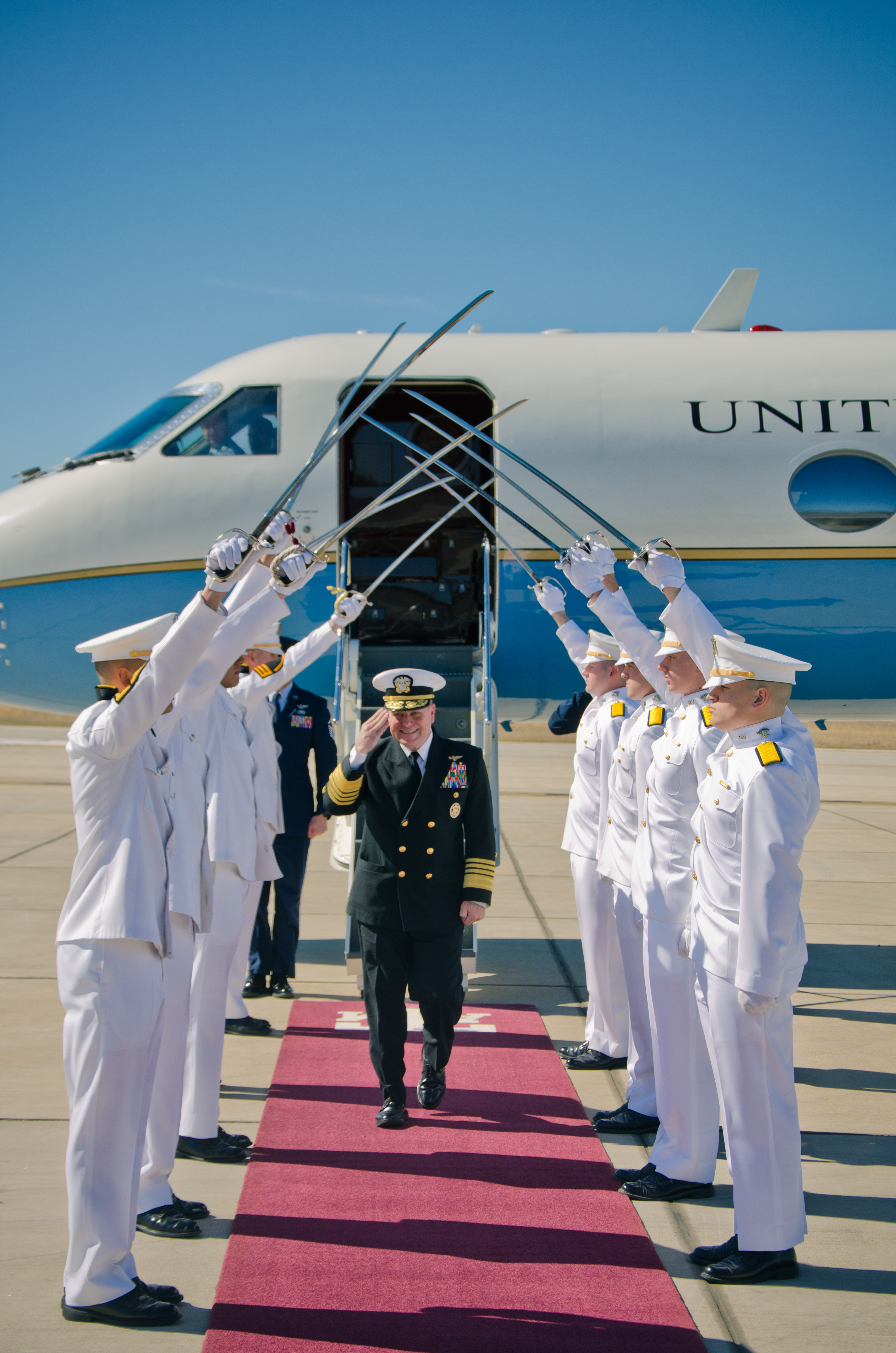 Receiving Admiral Gortney at Easterwood Airport